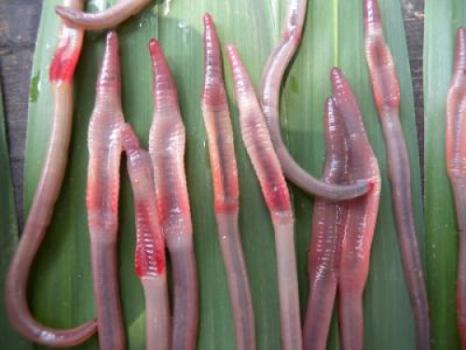 Tis picture shows speciments from the semi-aquatic earthworm genus Glyphidrilus